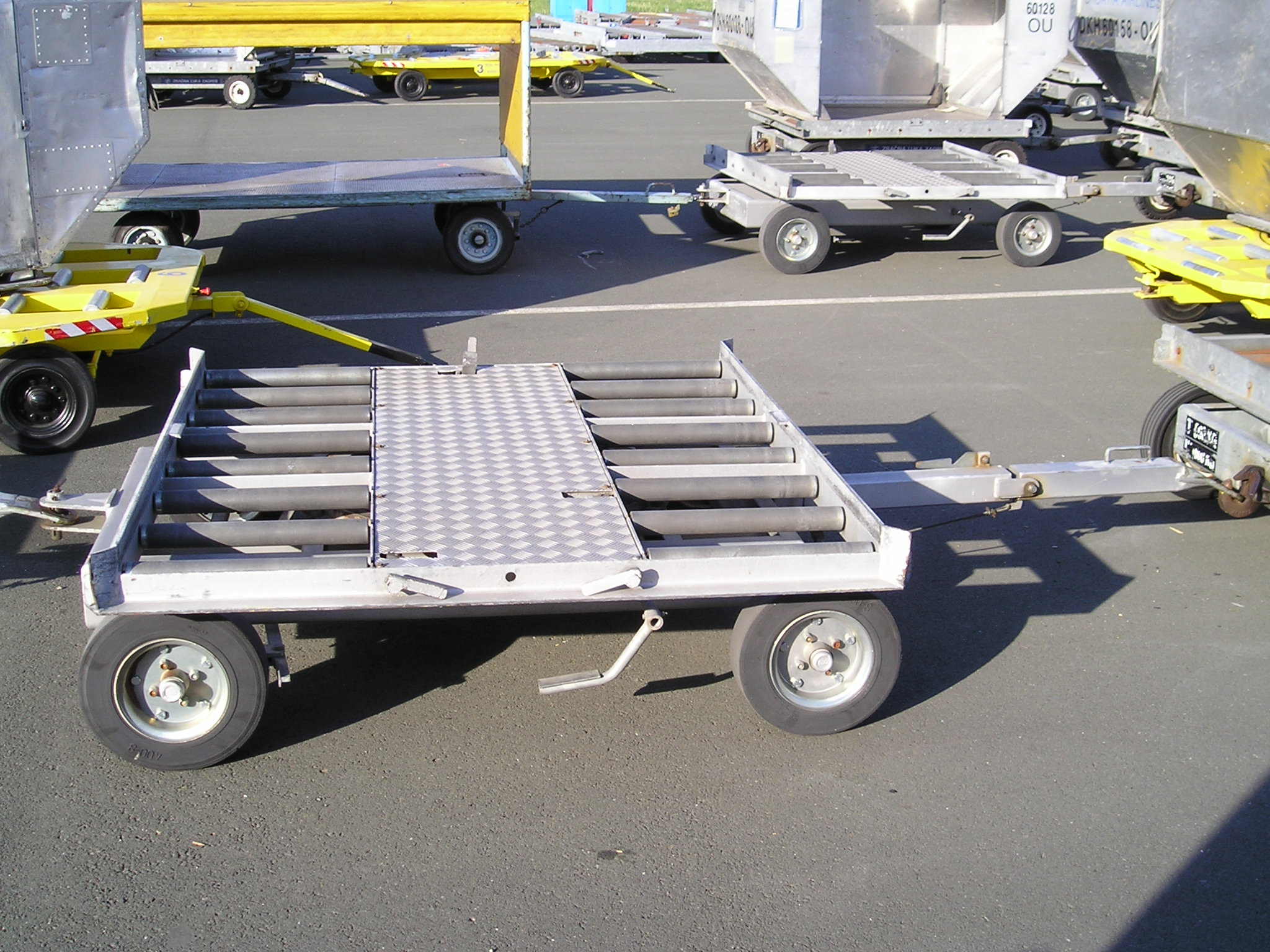 Container dolly